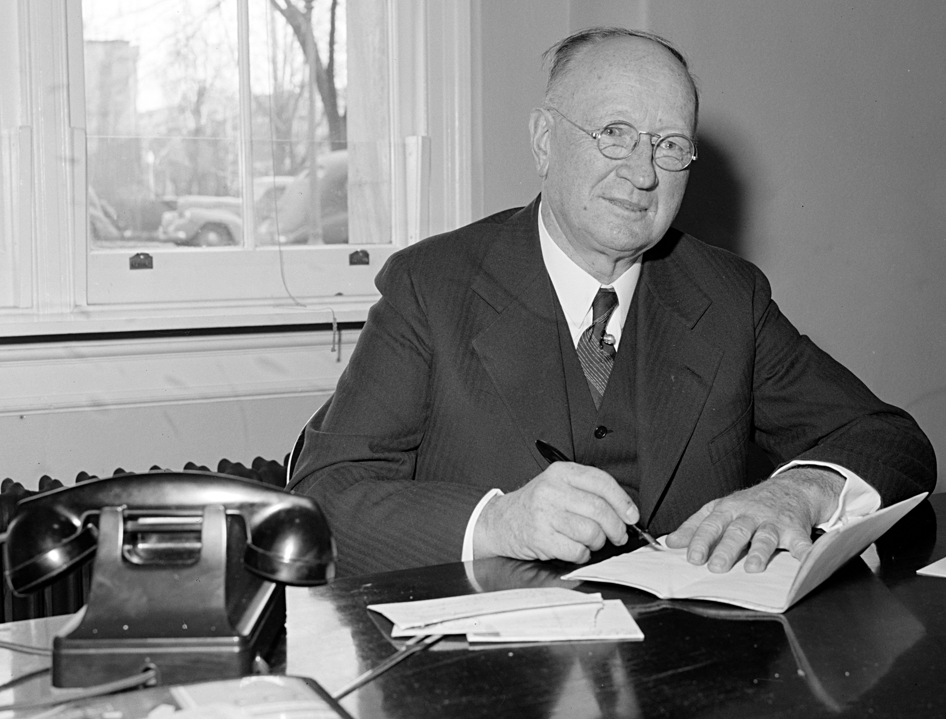 John Jennings, US Representative from Tennessee